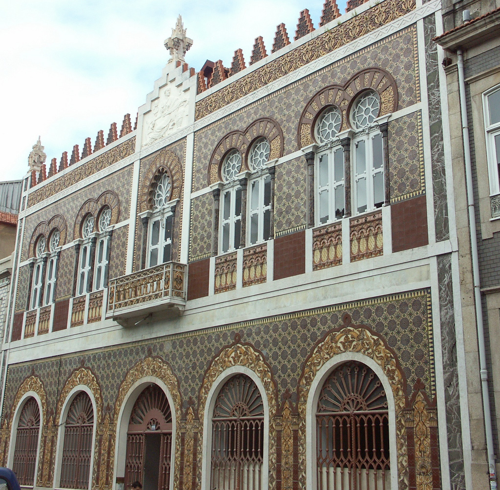 Islamic revival building in Porto, Portugal